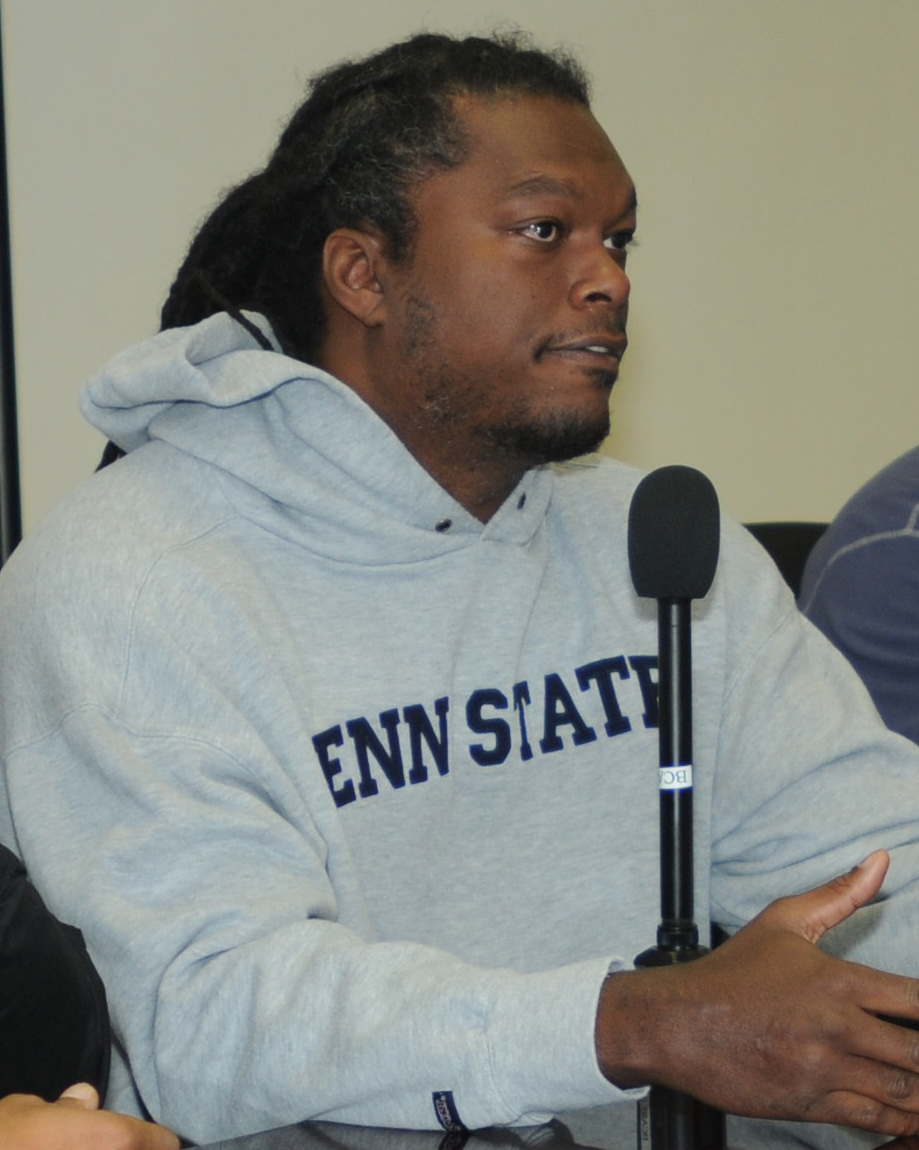 (Left to right) Antonio Freeman, former Green Bay Packers wide receiver, LaVar Arrington, former Washington Redskins linebacker, and Rodney Peete, former Philadelphia Eagles quarterback, talk with service members about their experiences with the military and the NFL as a part of the players and coaches interview during Tostitos "Connect to Home Bowl" a joint effort with the United Service Organization at Joint Base Balad, Iraq, on Dec. 20. Arrington went into depth about his experience as a linebacker and how he played each down like it was his last. "With that mentality, you do not go out there with the intention of hurting anyone, but I darn sure go out there with the intentions of impacting everyone’s life that is out there on the field with me, especially who is on the other side of the ball," said Arrington.